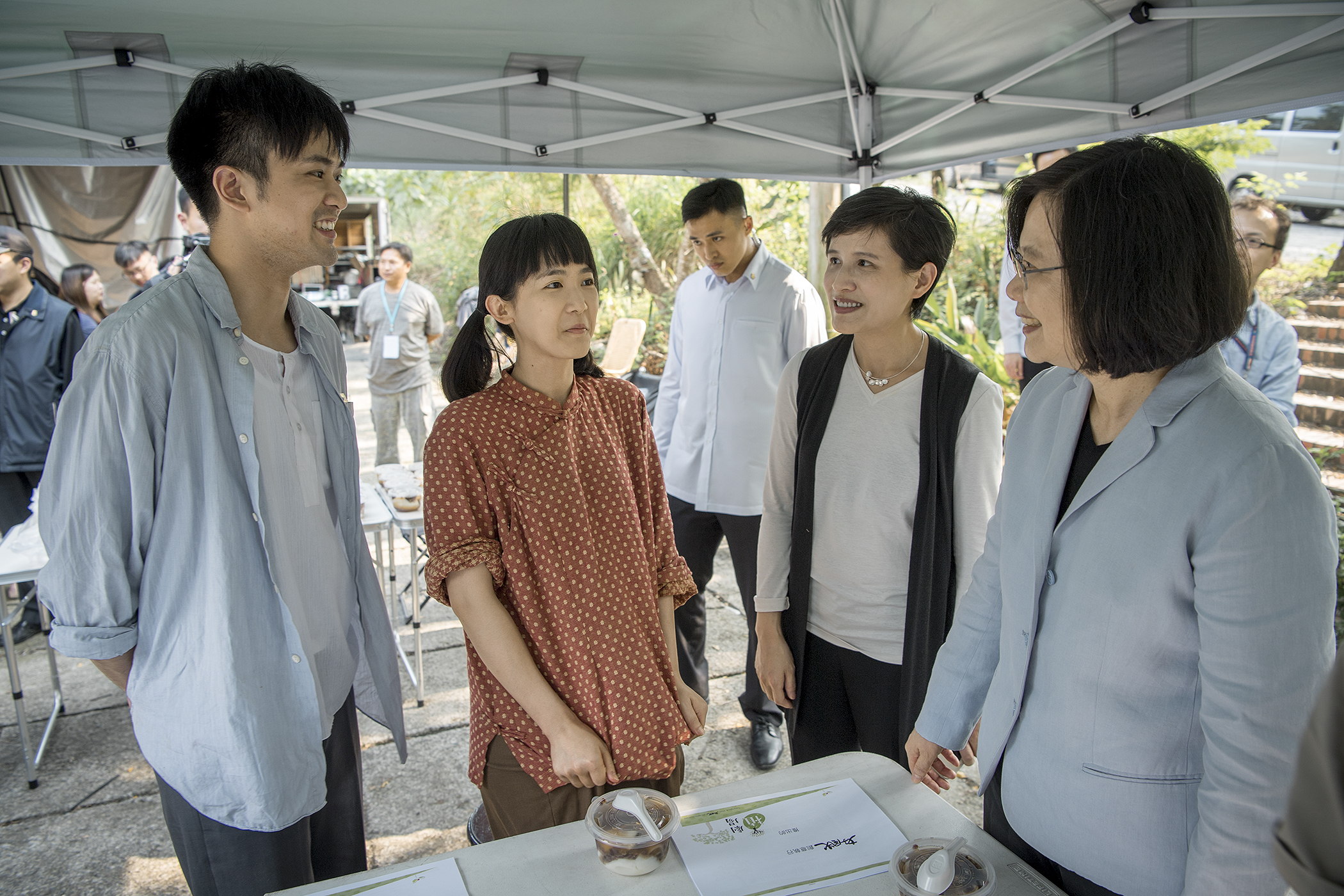 授權方式及範圍：中華民國總統府│政府網站資料開放宣告 Authorization Method & Scope: Office of the President, Republic of China (Taiwan) | Government Website Open Information Announcement